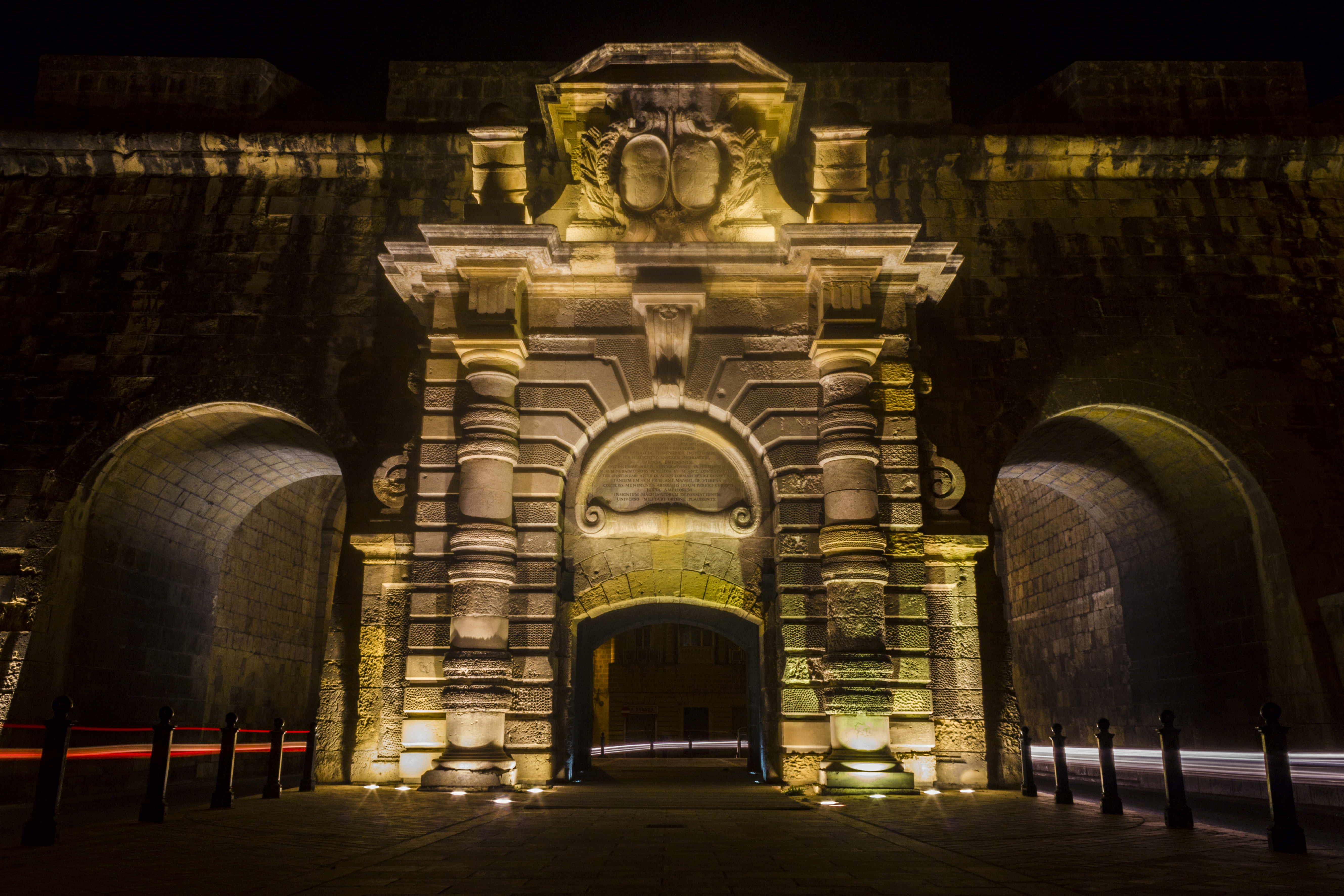 This media is about Maltese cultural property with inventory number 01541.